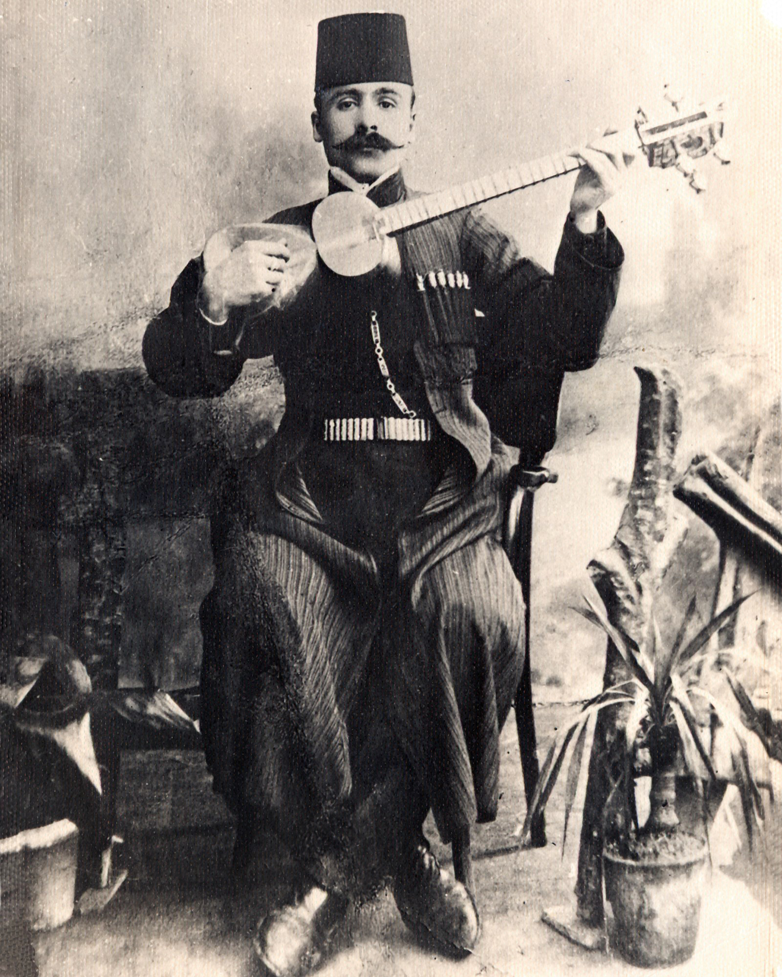 Azerbaijani tar player Meshadi Jamil Amirov (1875-1928)